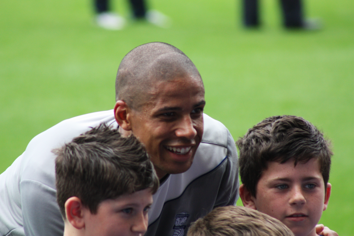 Curtis Davies at Birmingham City open training session at St.Andrews' Stadium.